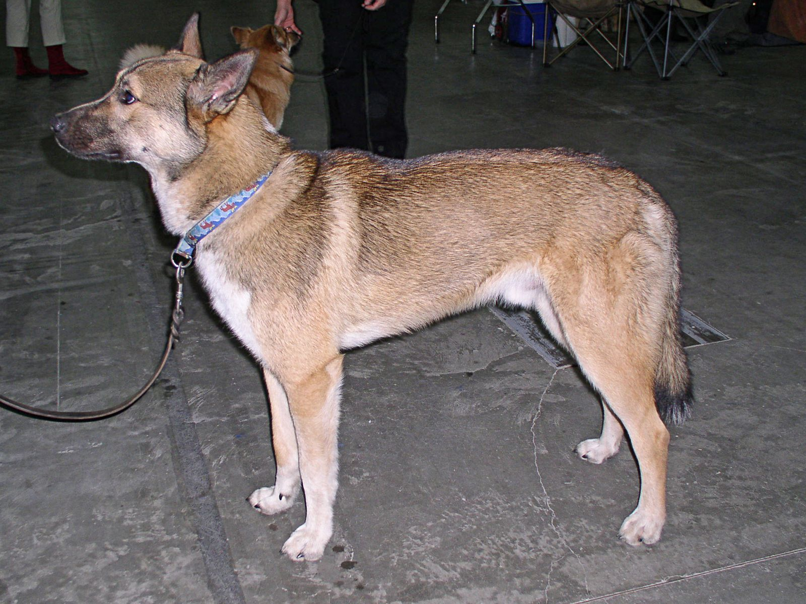 East Siberian Laika, young dog. The picture was taken by PrzemekL during World Dog Show 2006 in Poznań.